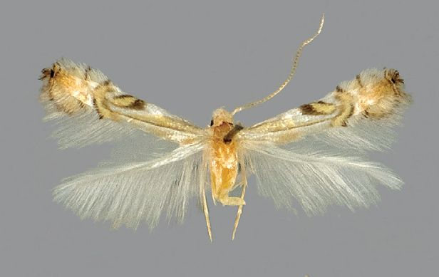 Phyllocnistis maxberryi, adult holotype female (abdomen removod for dissection).